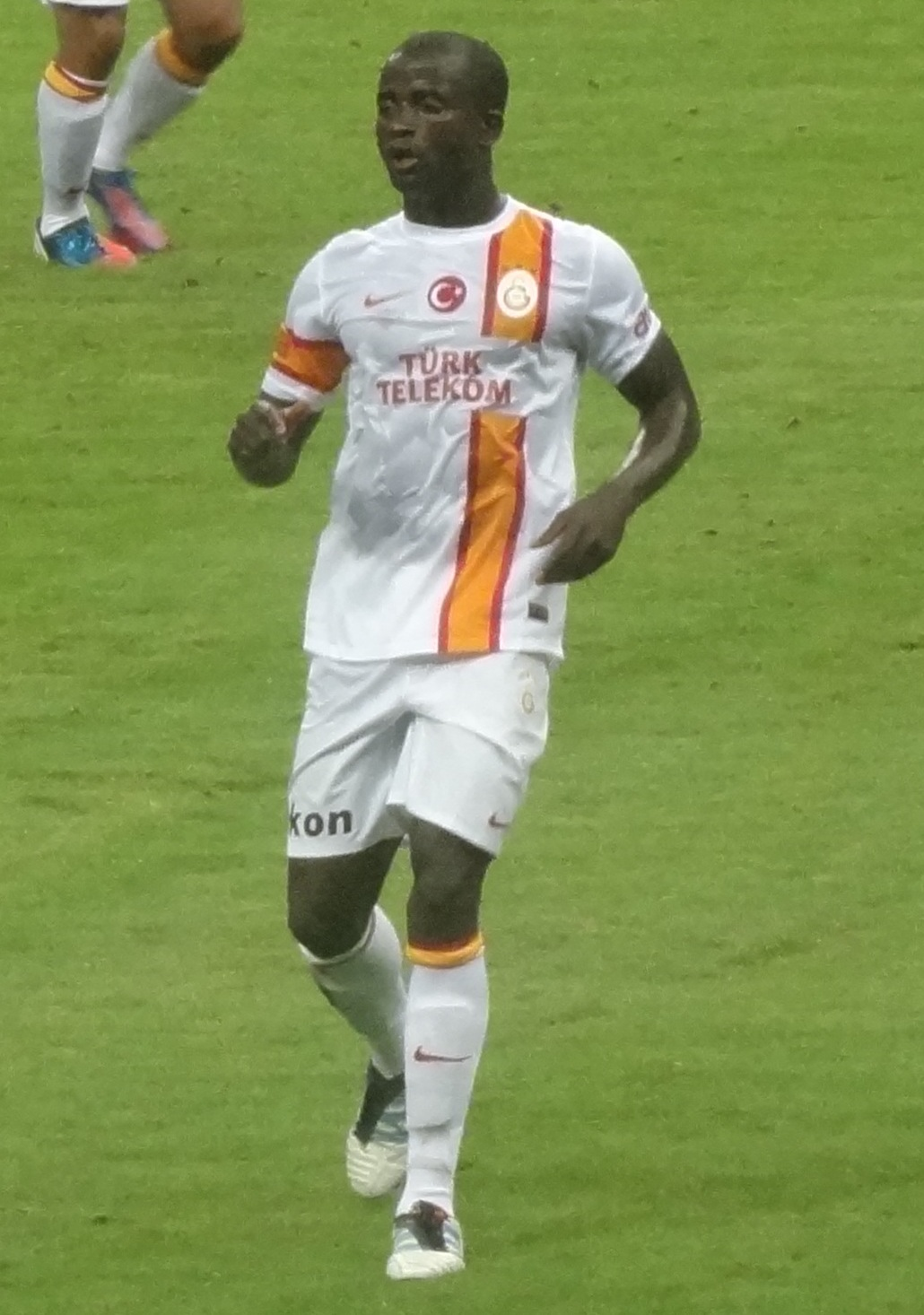 Dany against Fiorentina